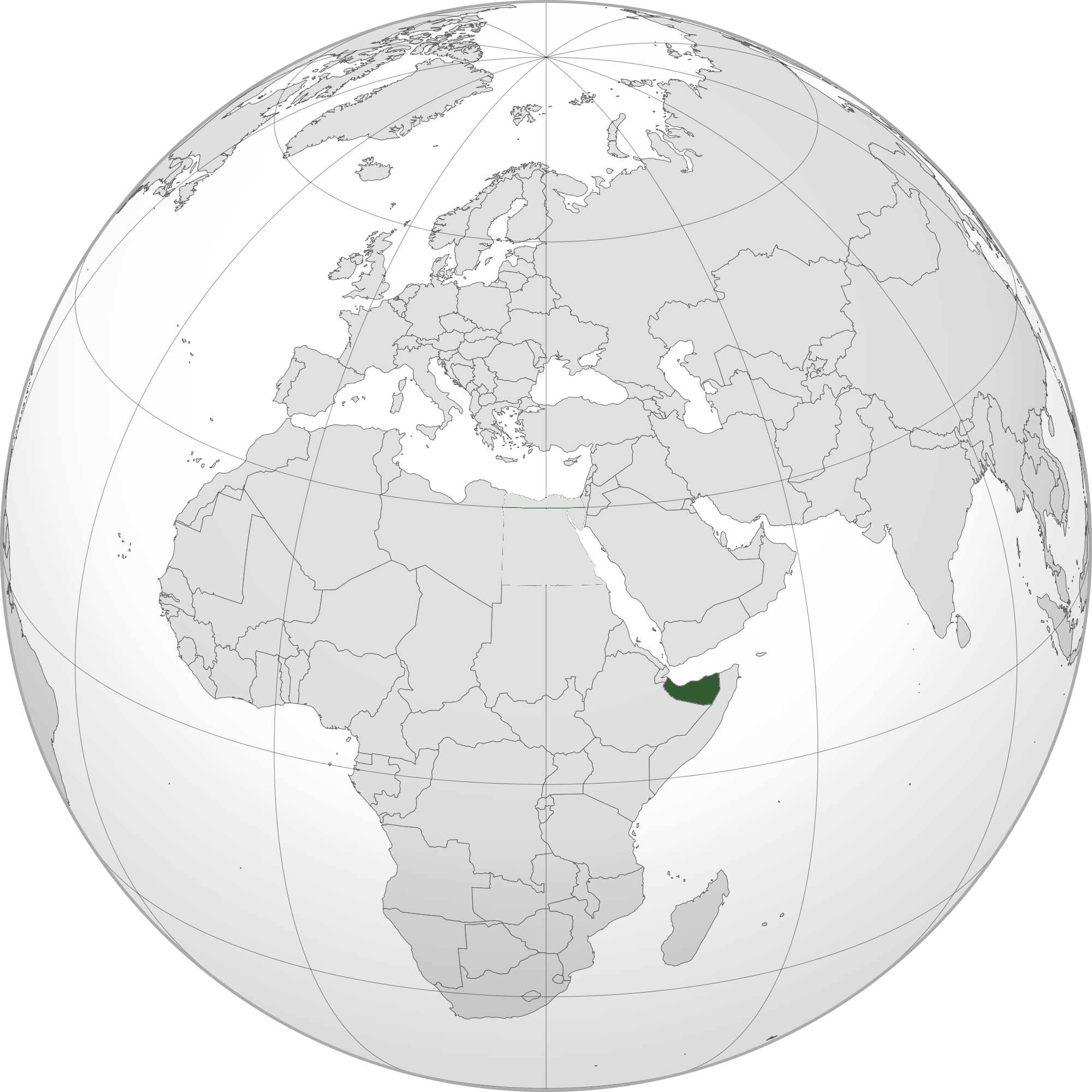 Somaliland